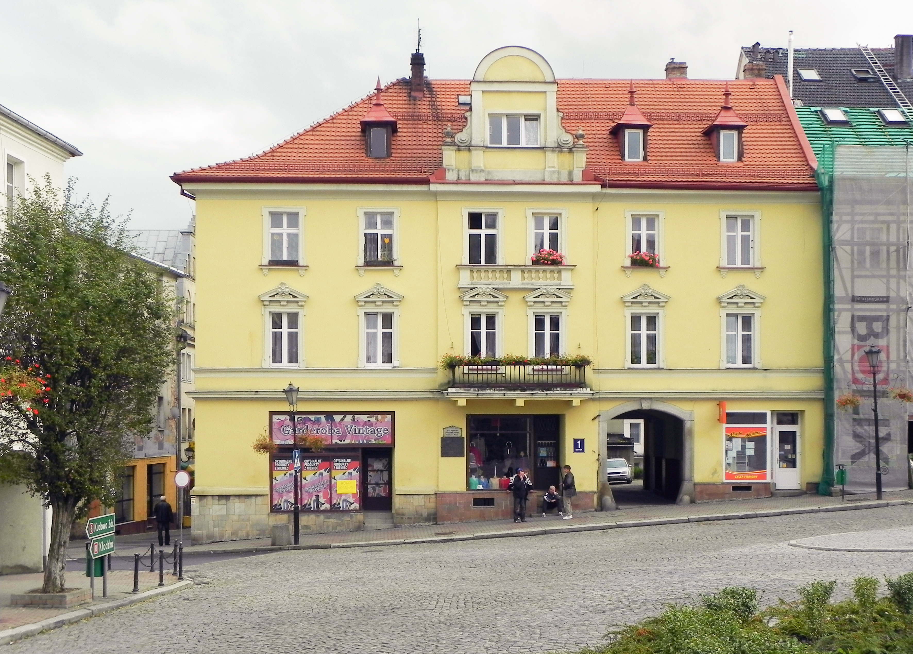 1 Market Square in Duszniki-Zdrój